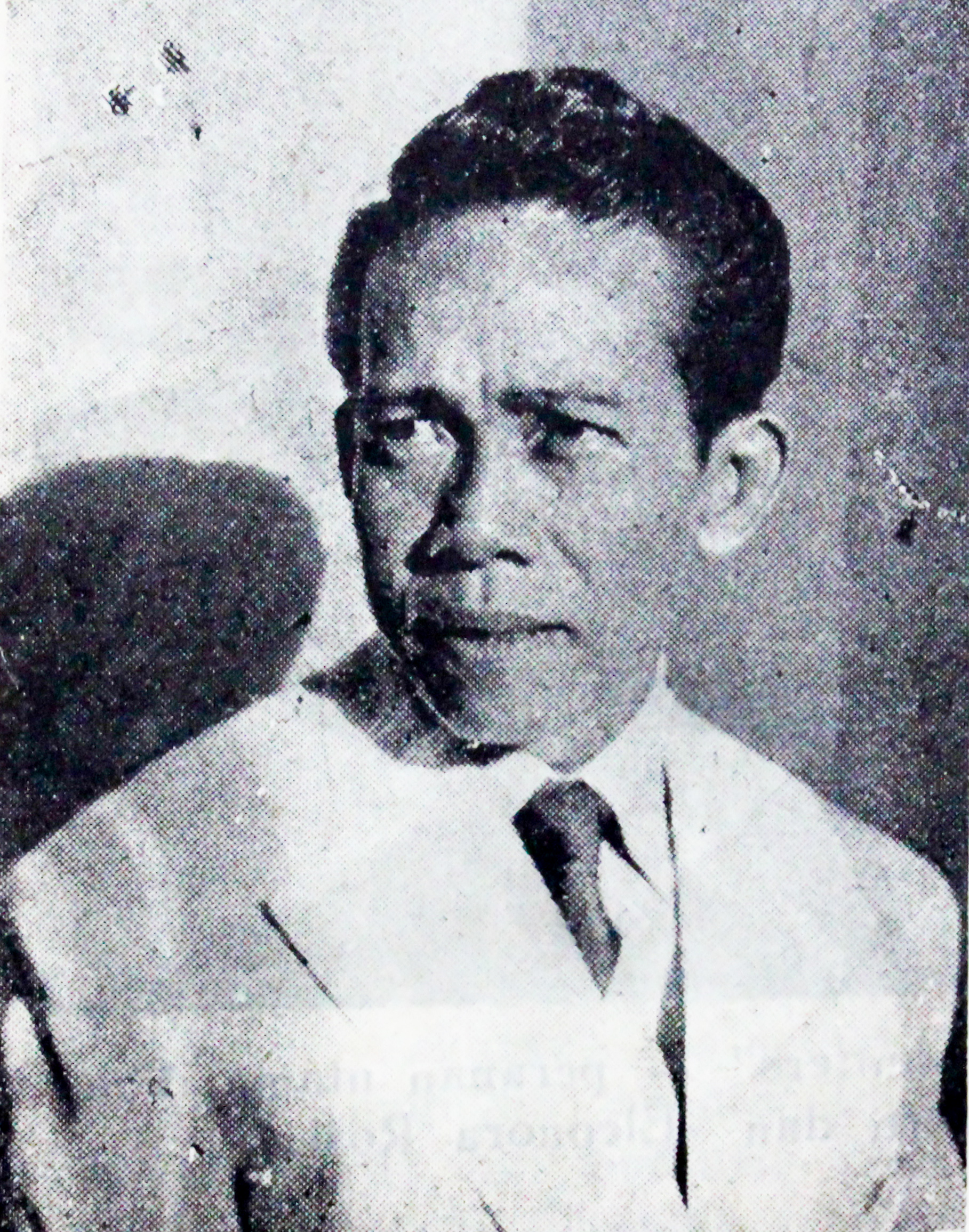 Indonesian film director Rempo Urip in a promotional still.